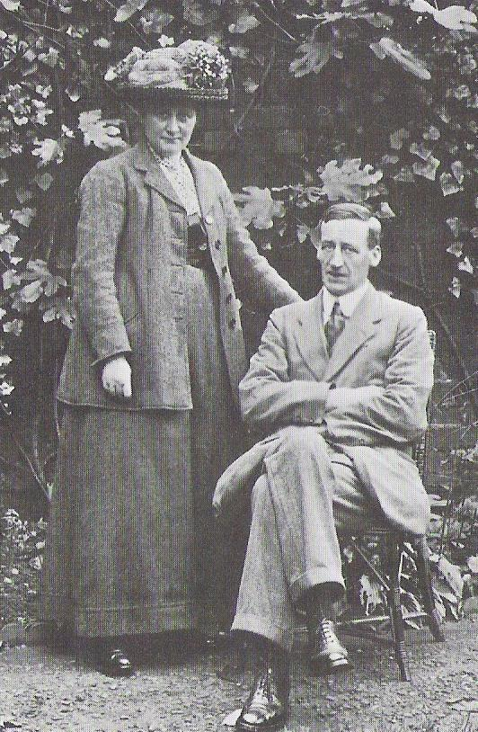 Beatrix Potter and her husband William Heelis on their wedding day